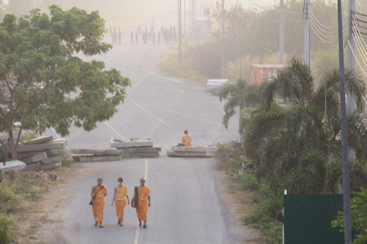 Monks at Wat Phra Dhammakaya during lockdown with surrounding soldiers in back